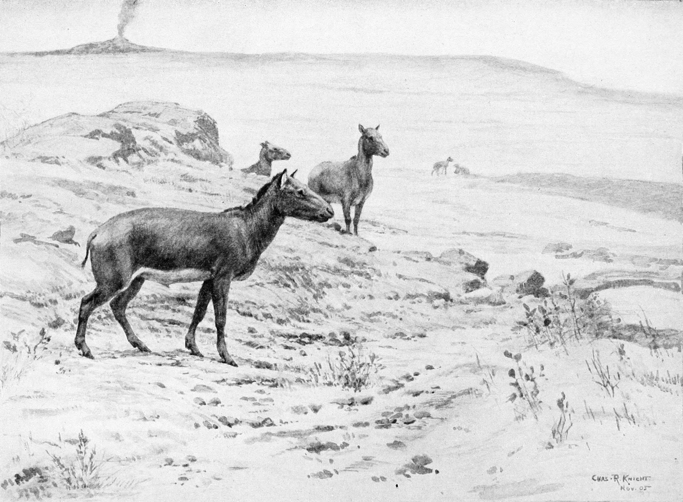 Life restoration of Diadiaphorus majusculus from W.B. Scott's "A History of Land Mammals in the Western Hemisphere." New York: The Macmillan Company.